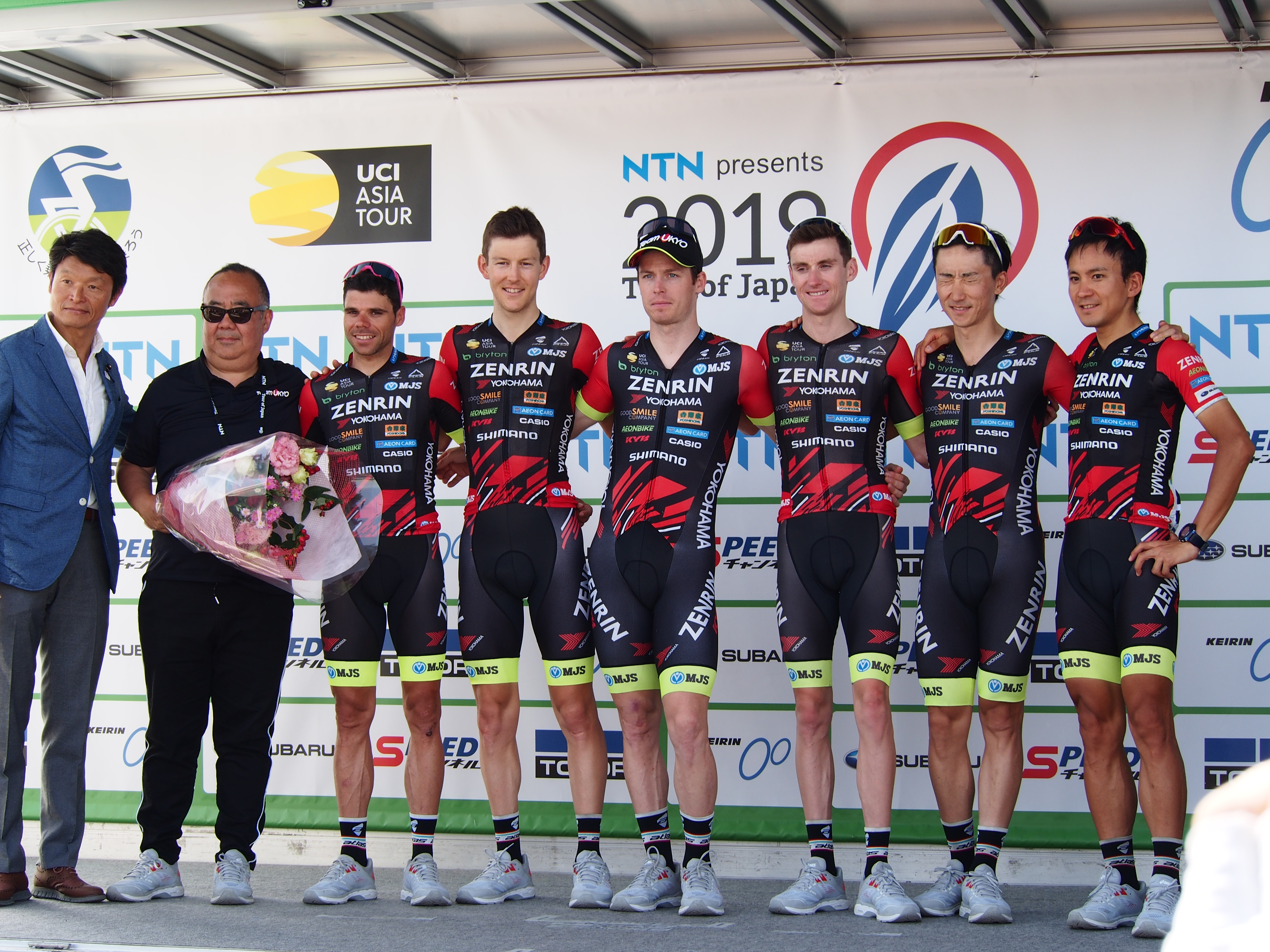 Riders of the Team Ukyo on the podium for winning the overall team time classification of 2019 Tour of Japan.